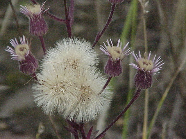 Species: Erigeron acre Family: Compositae Image No. 10